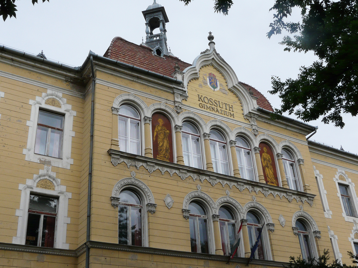 Cegléd (Hungary)